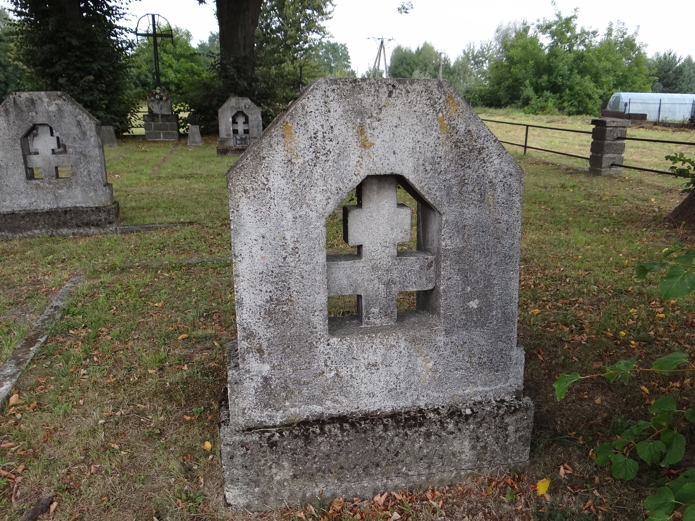 World War I Cemetery nr 210 in Łęka Siedlecka